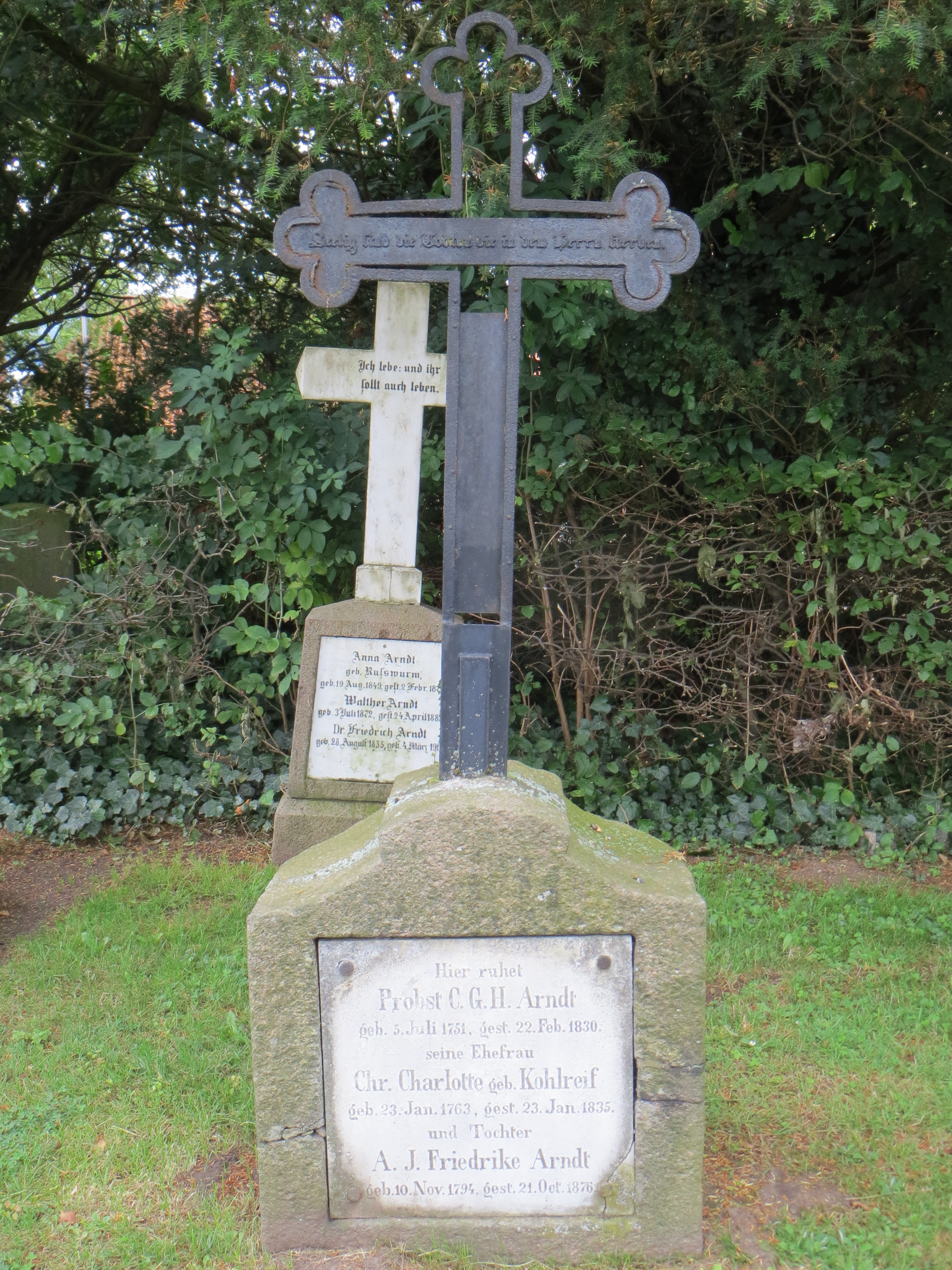 Ratzeburg Cathedral Cemetery